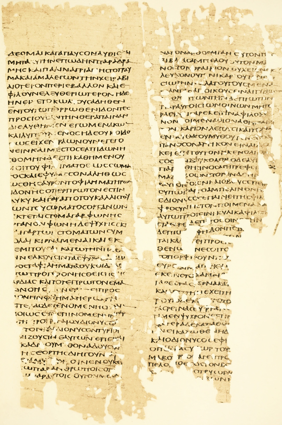 P.Oxy. X 1250 cols. i–ii: Achilles Tatius, Leucippe and Clitophon 2.7–8, with 2.2 following 2.8 (2nd–4th c.)